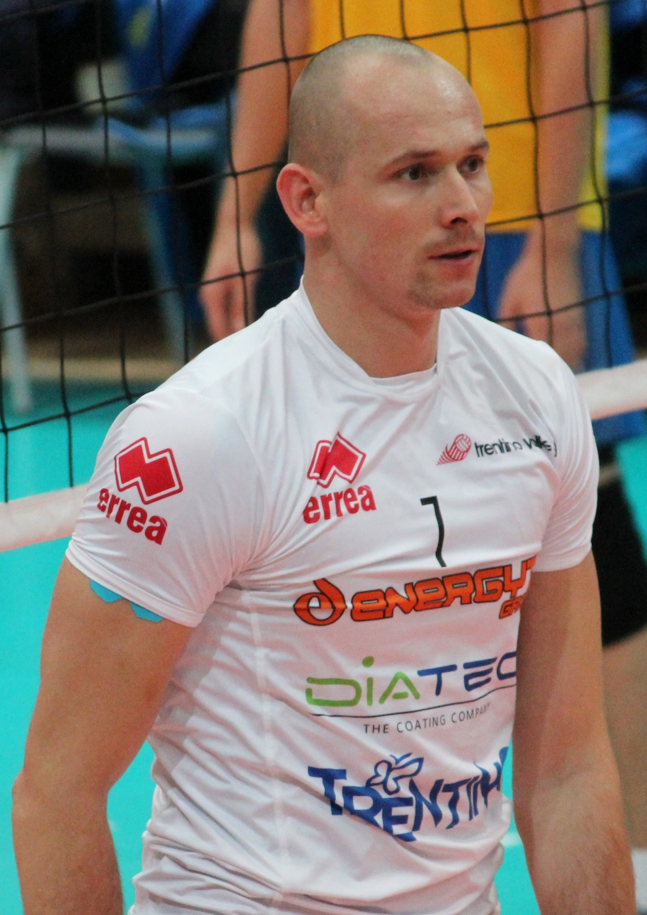 Martin Nemec, Slovakian volleyball player, in 2014